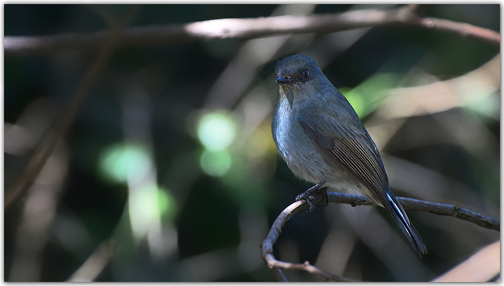 Nilgiri Flycatcher (Eumyias albicaudatus) – Female by Dharani Prakash